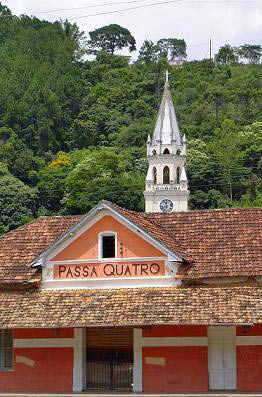 Estação de Trem e Igreja Matriz ao fundo (the train station and the church in the background), Passa Quatro, Minas Gerais, Brazil.